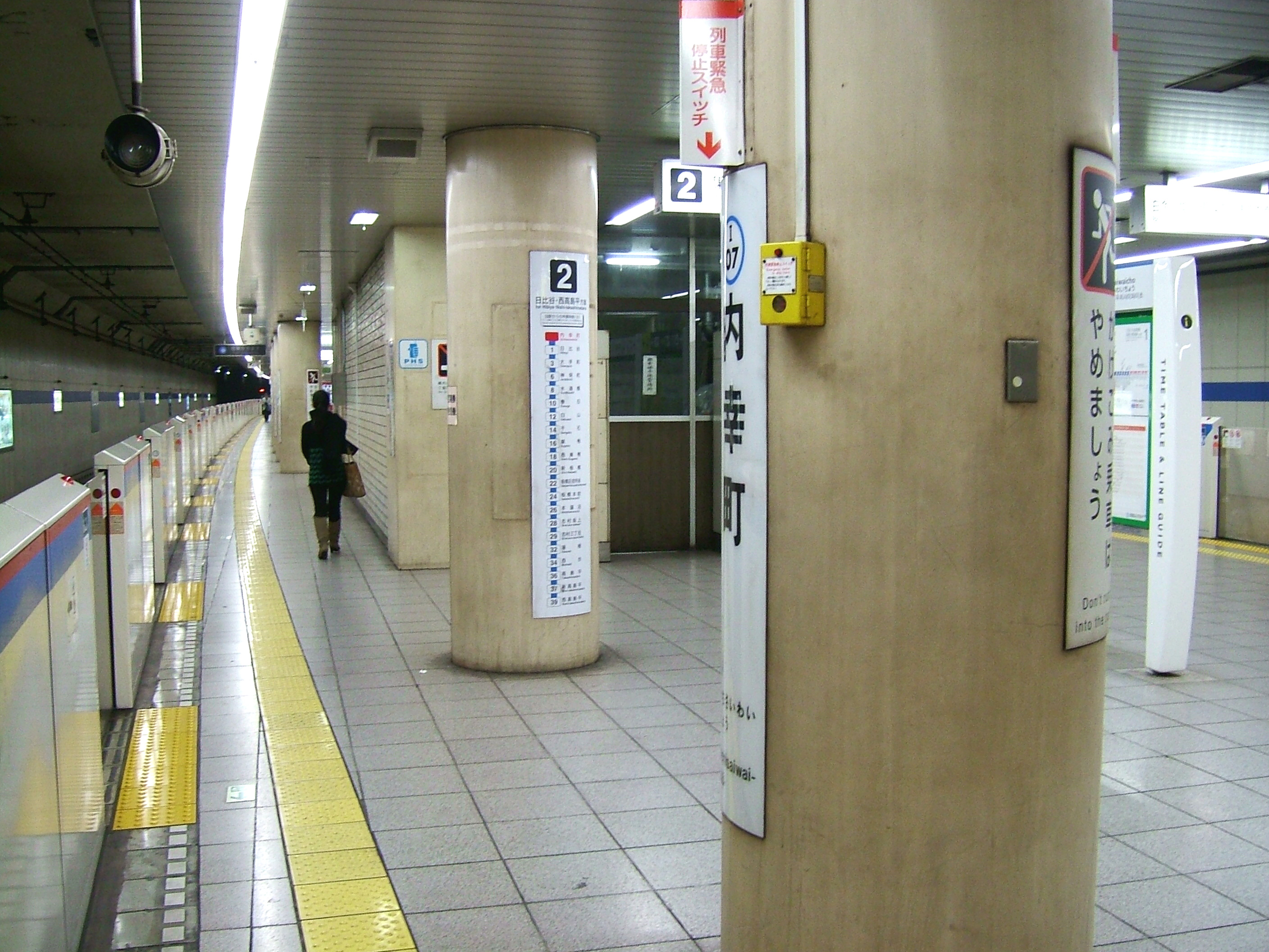 The platform at Uchisaiwaichō Station on the Toei Mita Line in Chiyoda city, Tokyo, Japan